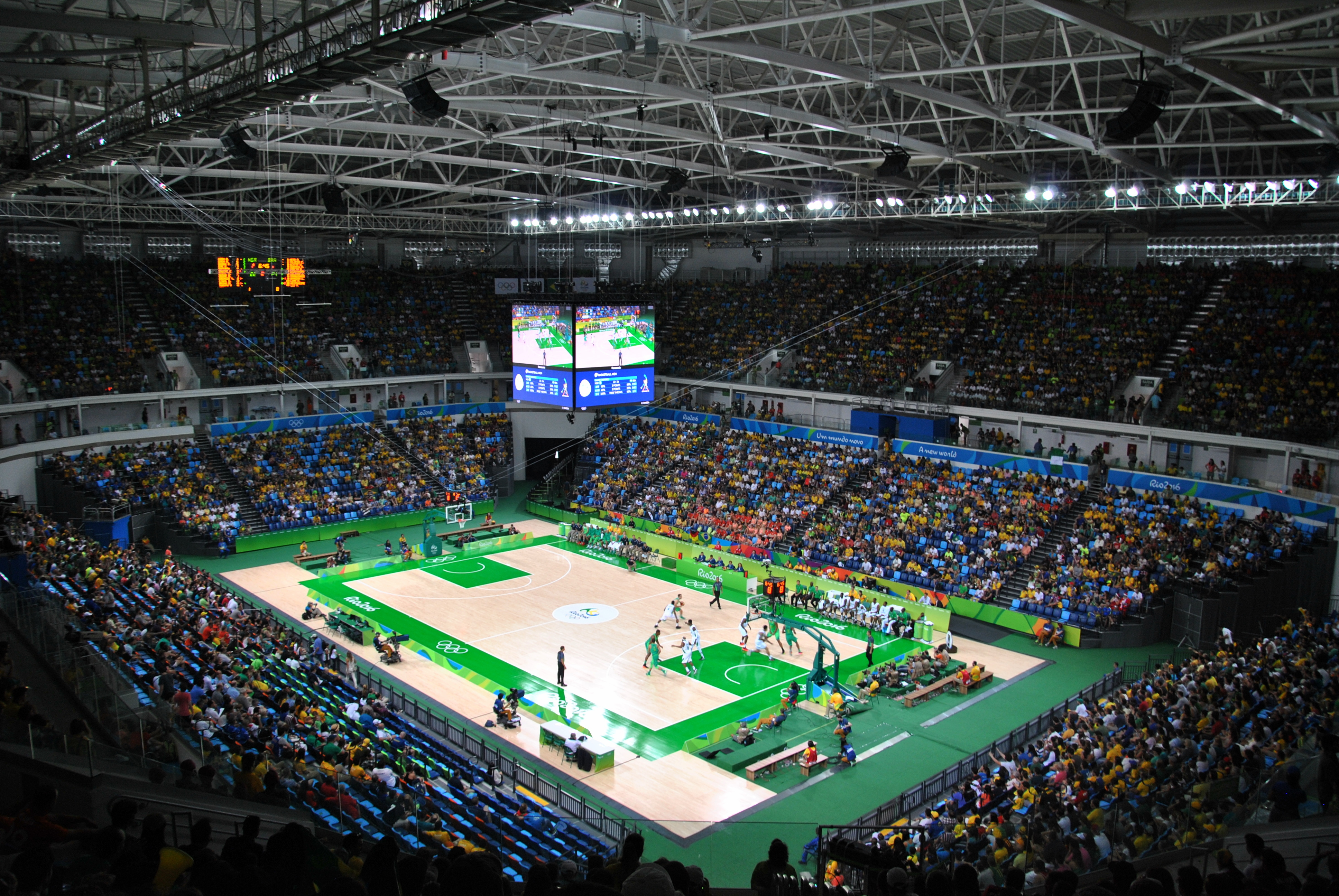 Brasil 86 Vs. 69 Nigeria. Arena Carioca 1. Barra Olympic Park. Rio 2016